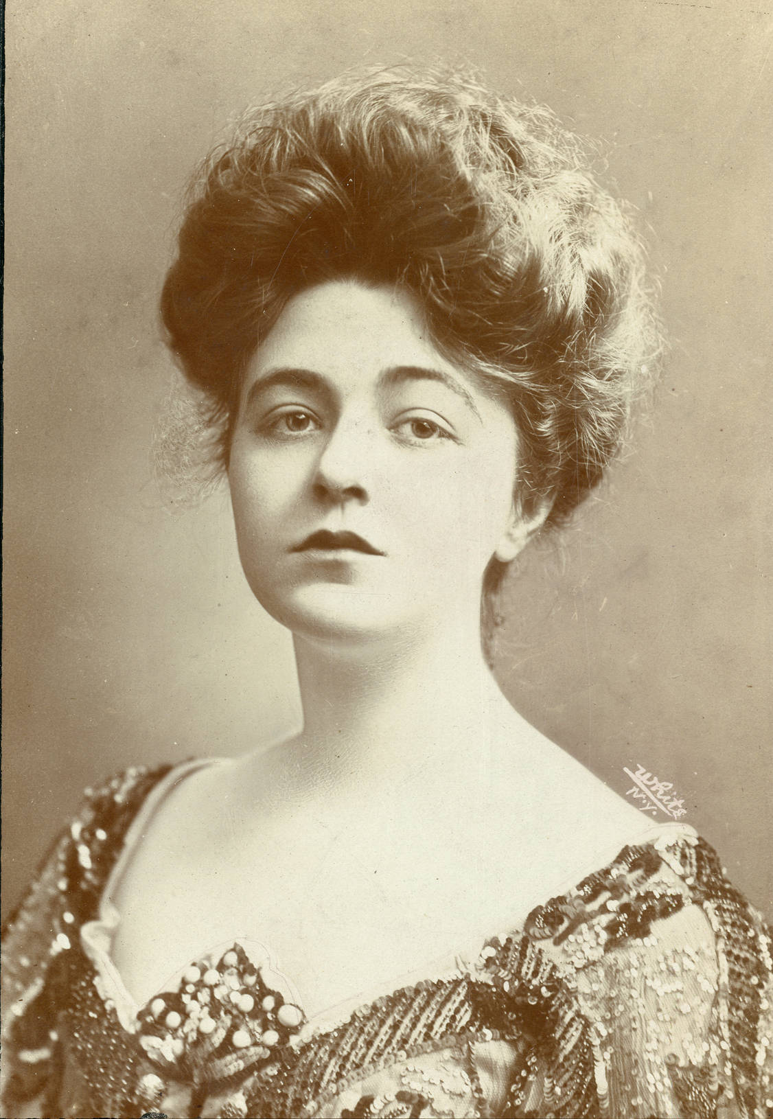 Jane Oaker, stage actress Subjects: actresses